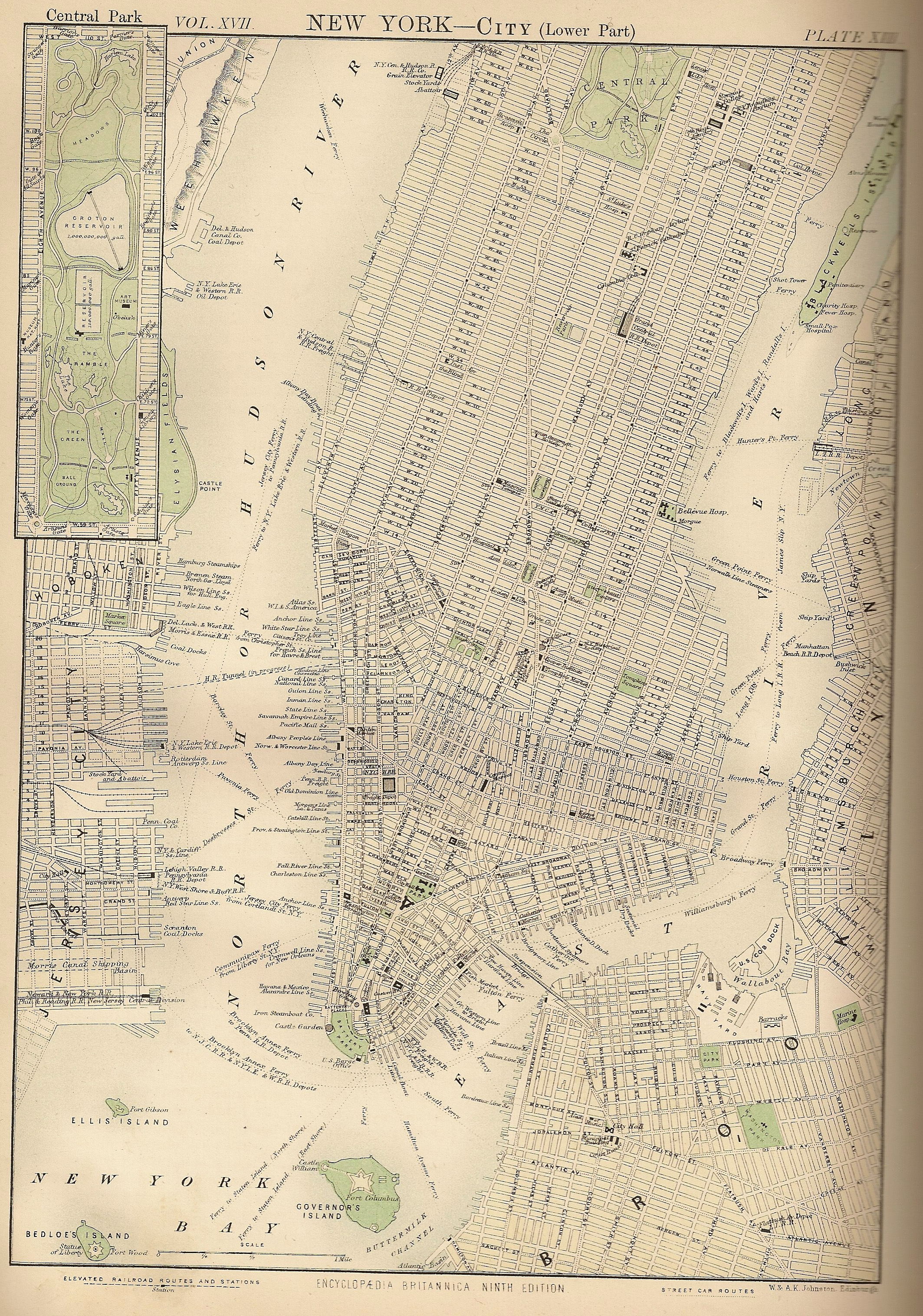 Map of NYC dated 1885, 2 years after the completion of the Brooklyn Bridge.